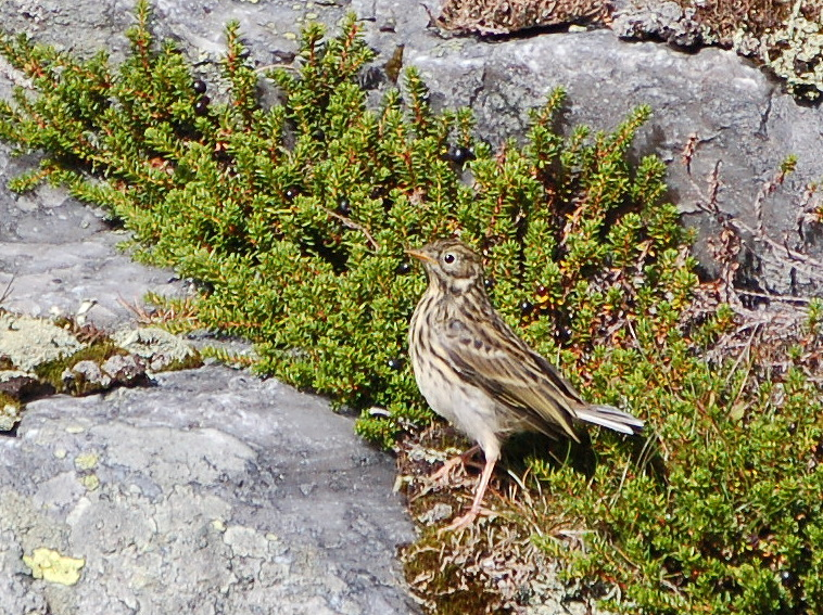 Meadow Pipit